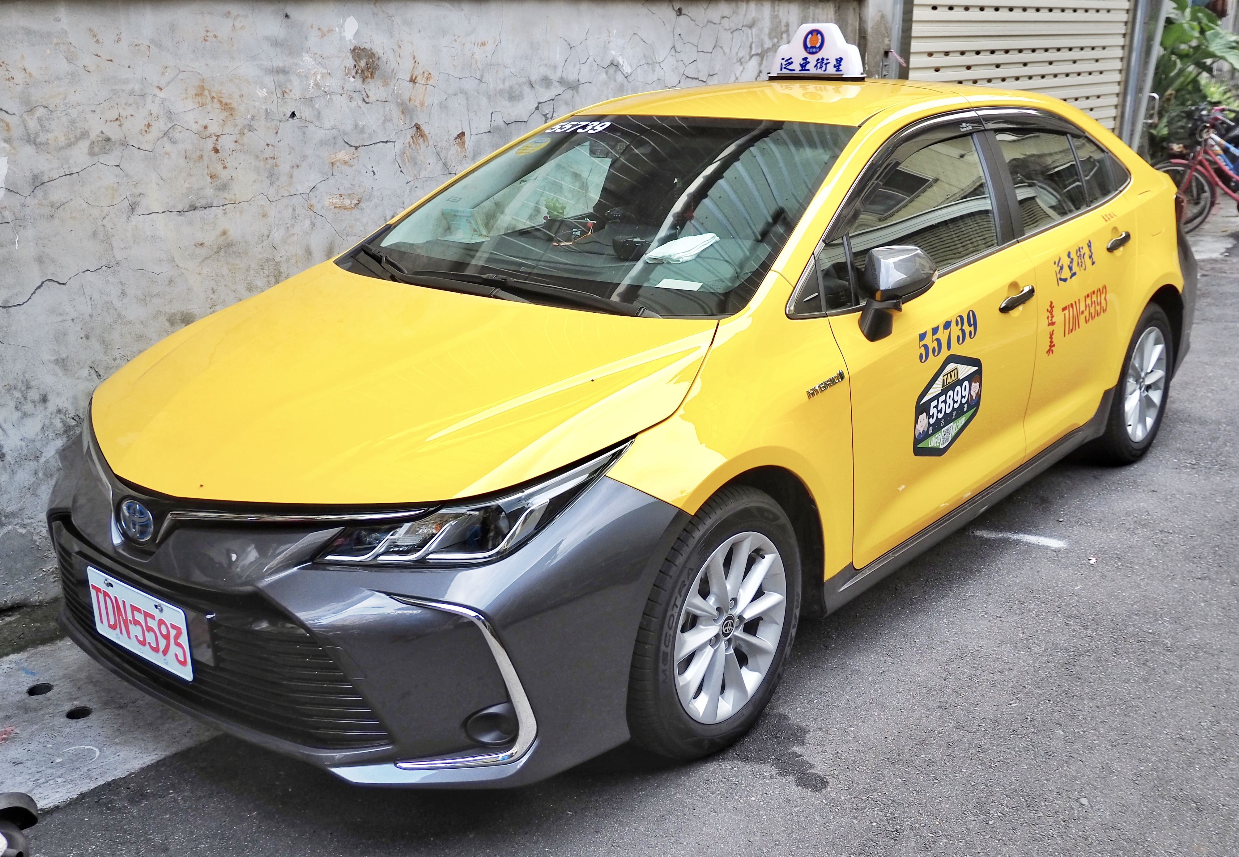 A 2019 Toyota Corolla Altis hybrid taxi photographed in Zhongzheng District, Taipei, Taiwan